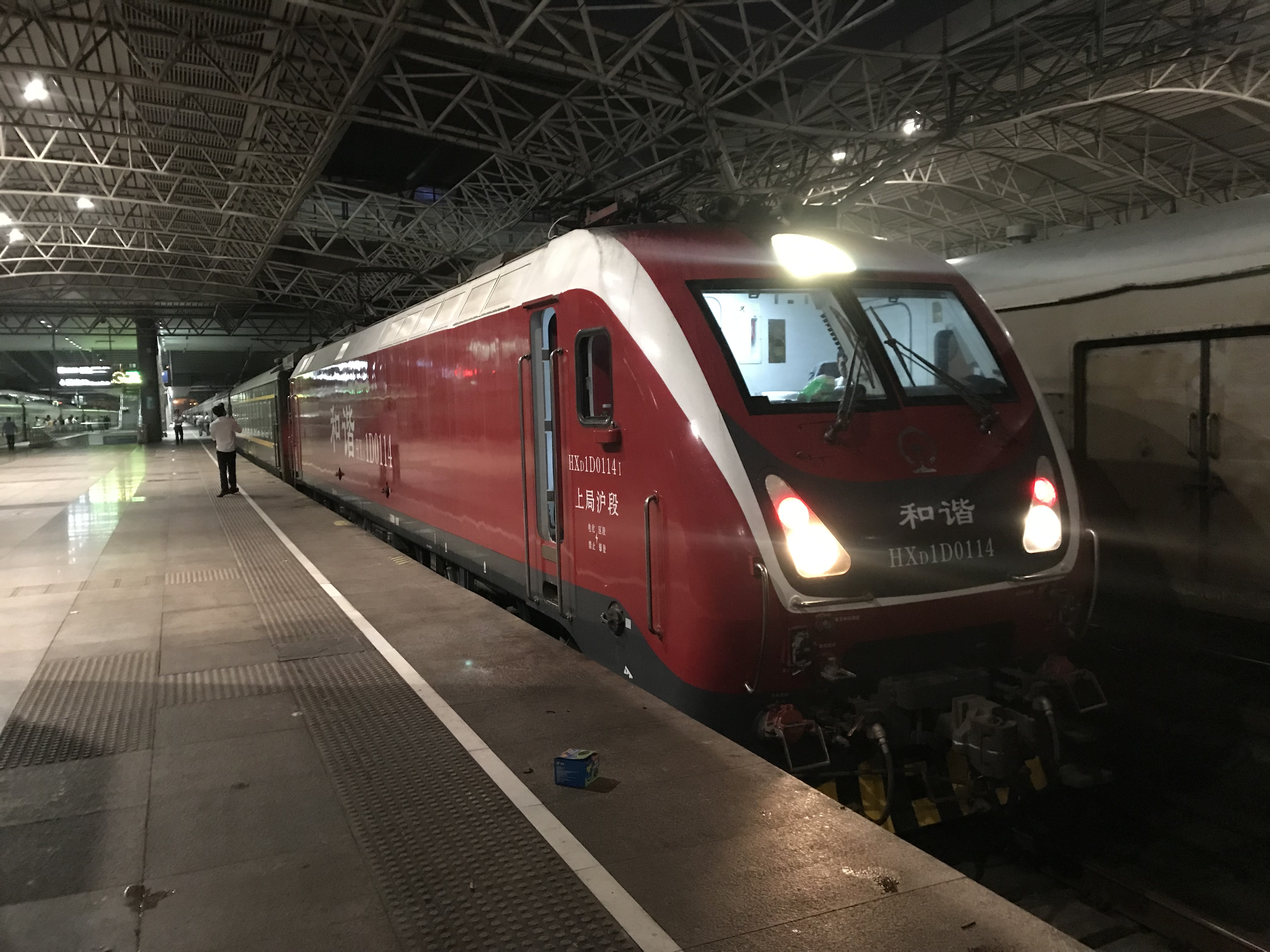 201907 HXD1D-0114 hauls K1805 at Shanghainan Station